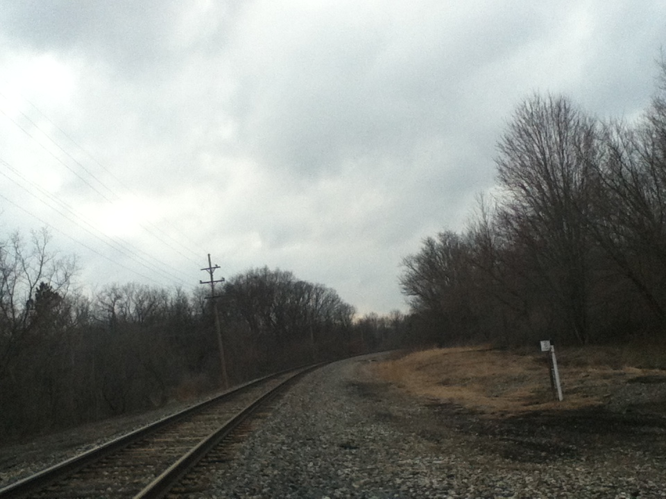 Railroad tracks in Dexter, MI